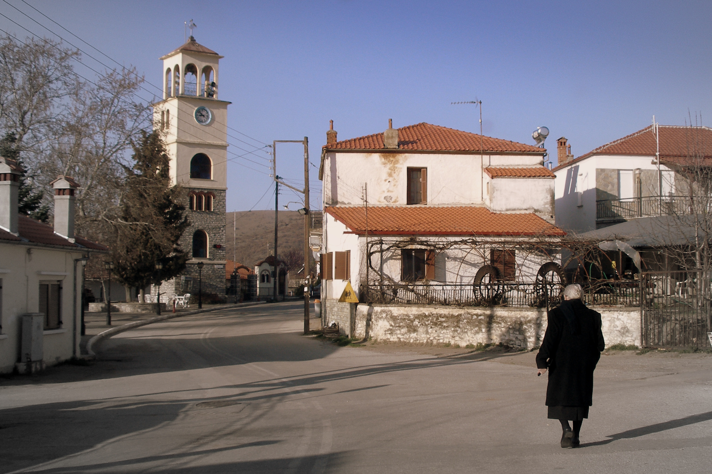 Village of Pelekanos (Pelka) - Central Square